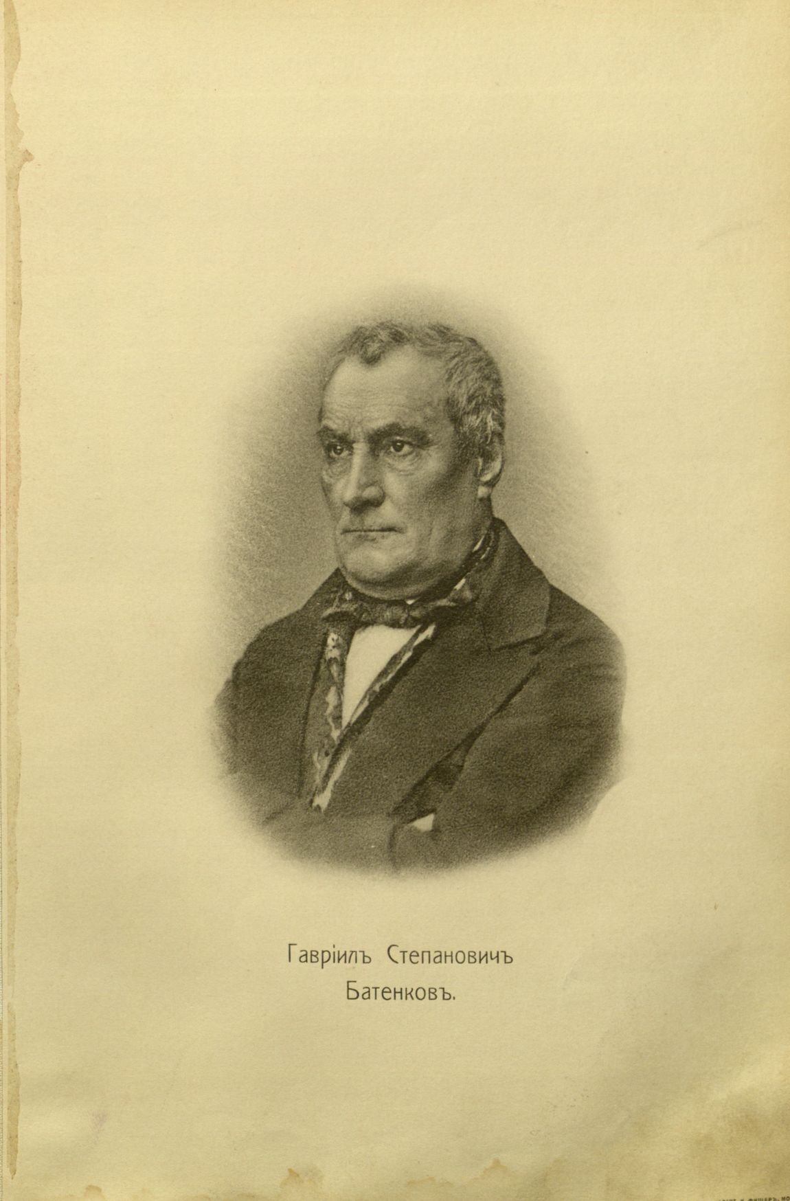 Gavriil S Batenkov